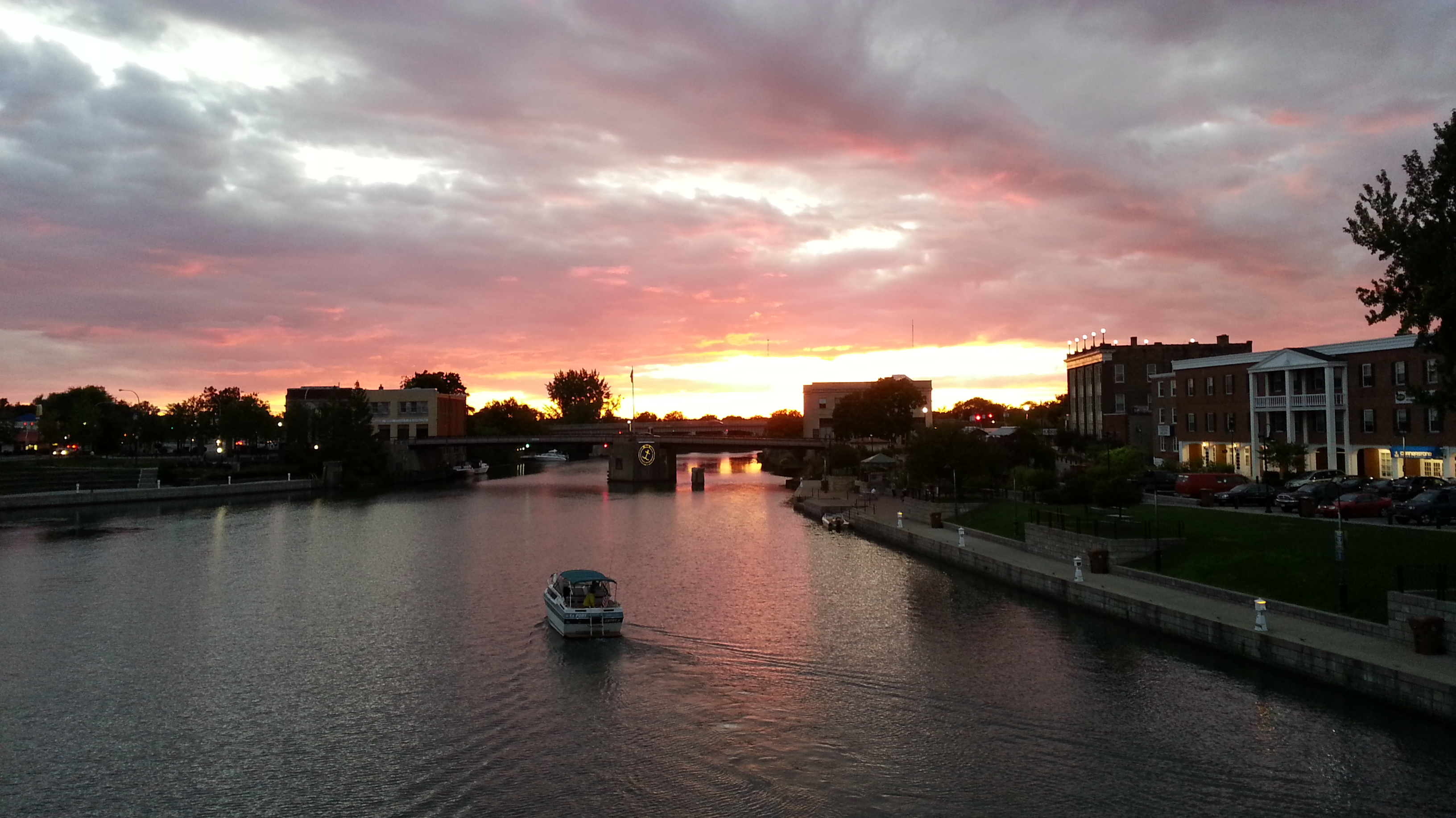 Gateway Harbor along the Erie Canal in North Tonawanda, NY. This photo was taken about 1500 feet from the present day western terminus of the Erie Canal where it connects to the Niagara River.